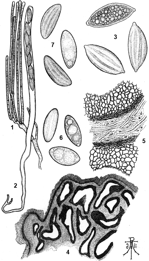 Drawing of various microscopic features of the fungus Wynnea americana Thaxt. 1) Paraphyses; 2) An ascus showing connection with subhymenial filament; 3) Three spores, the upper in optical section; 4) Portion of a section of the subterranean sclerotium showing chambers and cortex; 5) Portion of walls between two chambers; 6) W. macrotis Berk. Three spores, two in optical section; 7) W. gigantea Berk. & Curt. Three spores, one in optical section. Original screen capture had levels adjusted, and hand-drawn numbers replaced (and resequenced) with Photoshop by uploader.